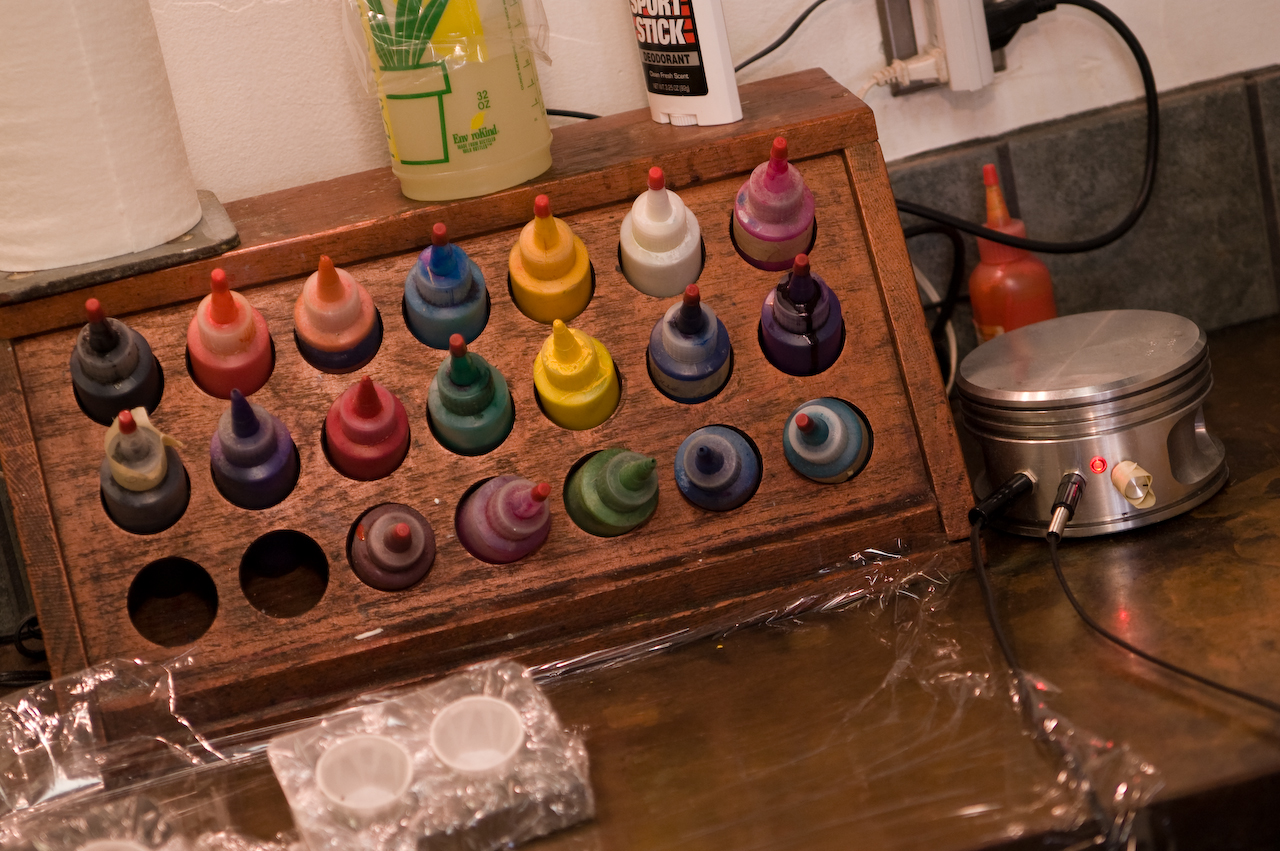 Check the piston power source.